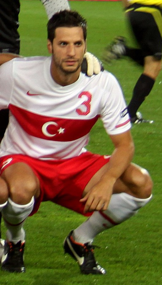 Hakan Balta, cropped from Turkey national football team against Austria 2011-09-06 (0:0)